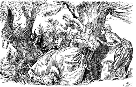 Mrs. Pocket And Her Family by Harry Furniss. 1910.